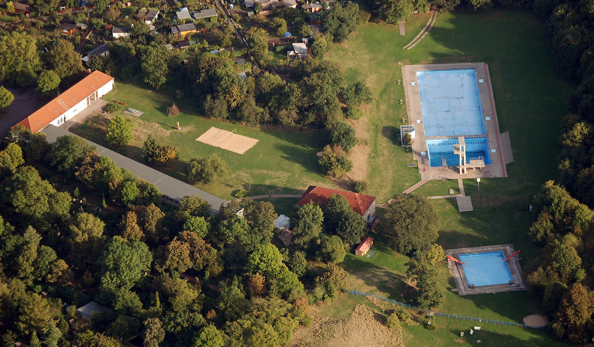 aerial image of the Nordbad in Halle/Germany